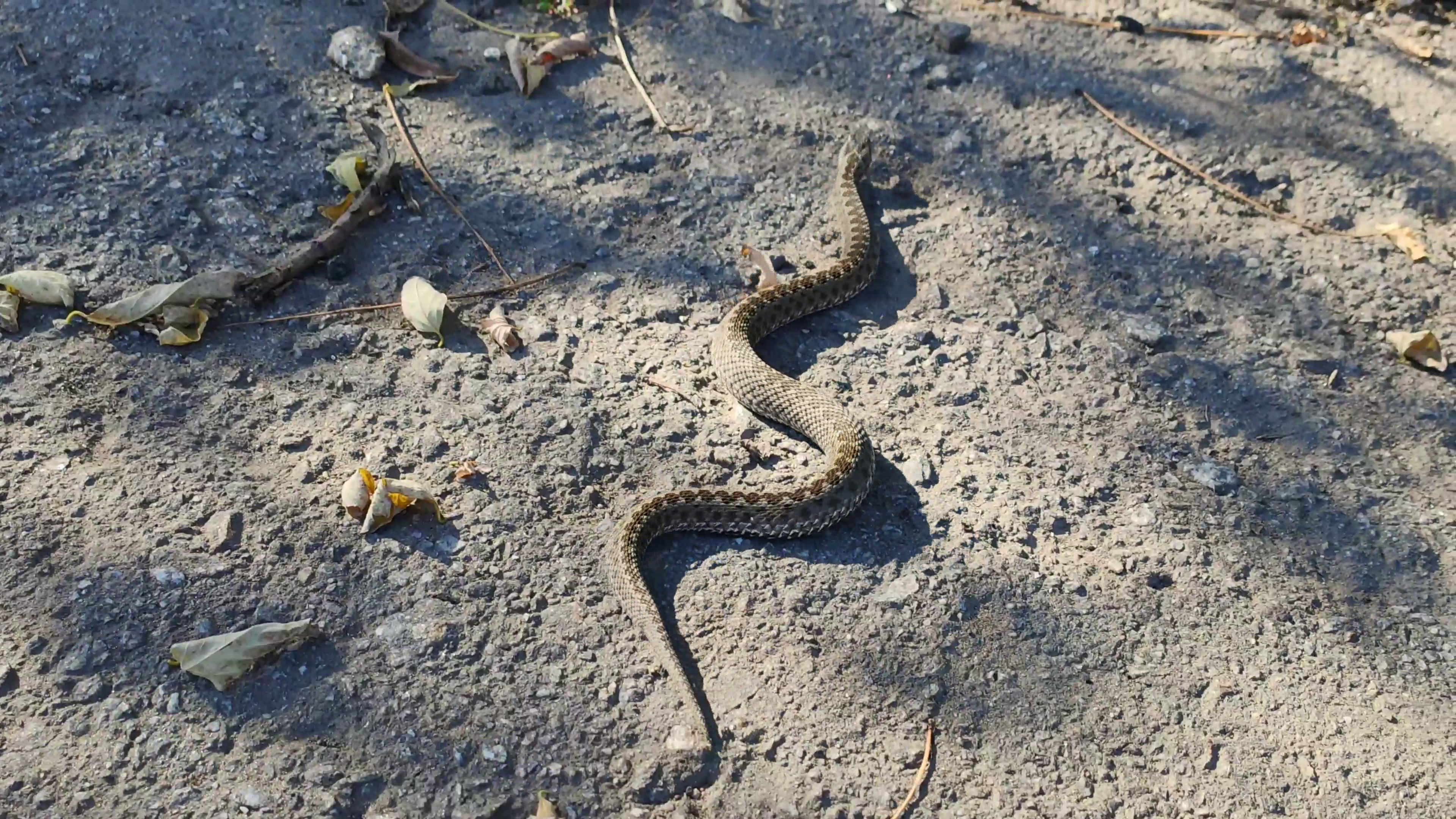 A snake (Vipera renardi) crawling away from the photographer.